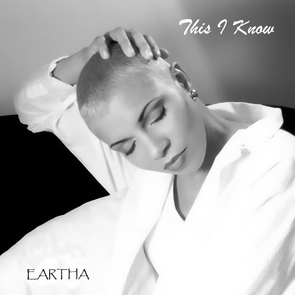 This I Know CD Cover